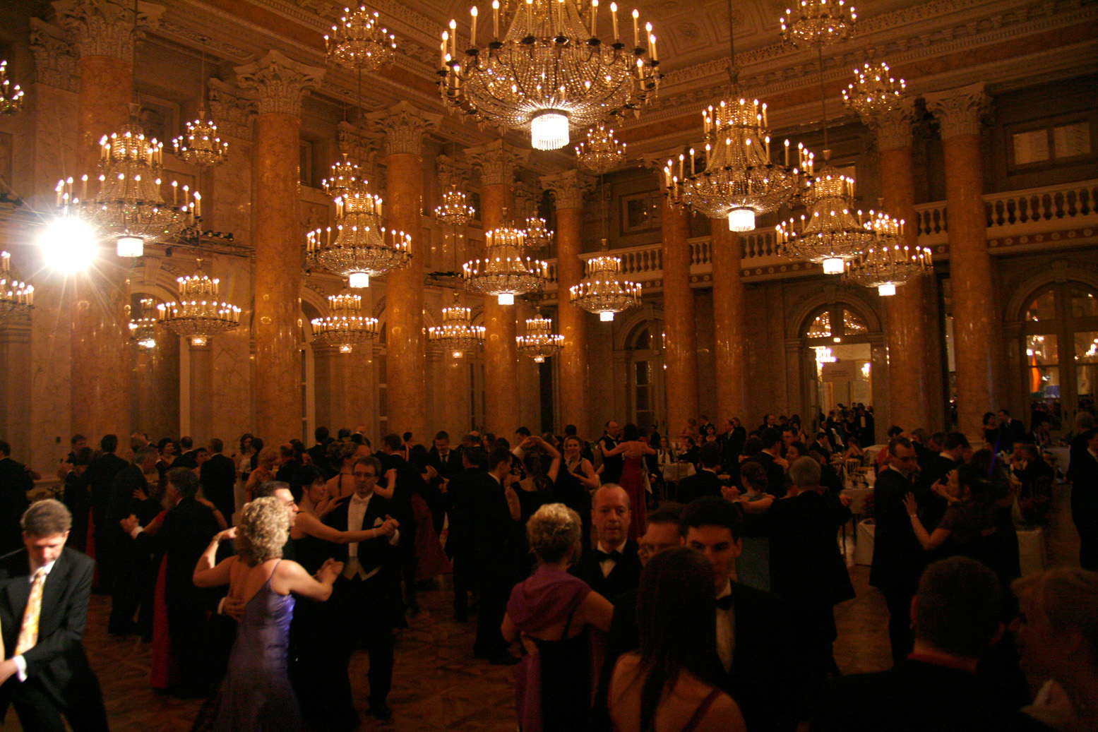 The Zeremoniensaal at the Hofburg Imperial Palace in Vienna during the charity ball dancer against cancer.